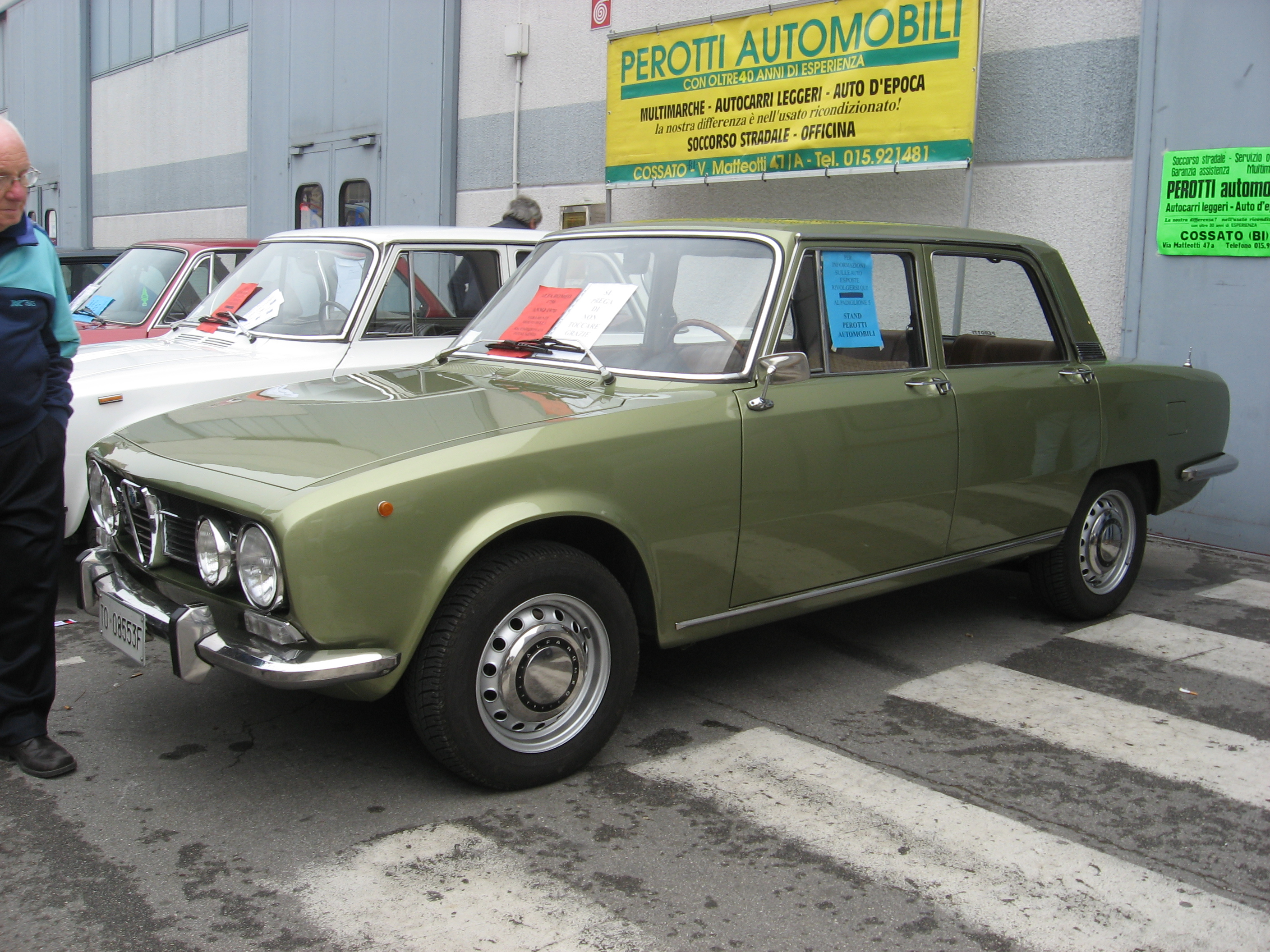 Subject: Alfa Romeo 1750 Author: Luc106 Date:October 24th, 2010 Event: Auto e Moto d'Epoca 2010 Place/Country: Palasport Padovafiere, Padova (Italy) I release all rights in the public domain.